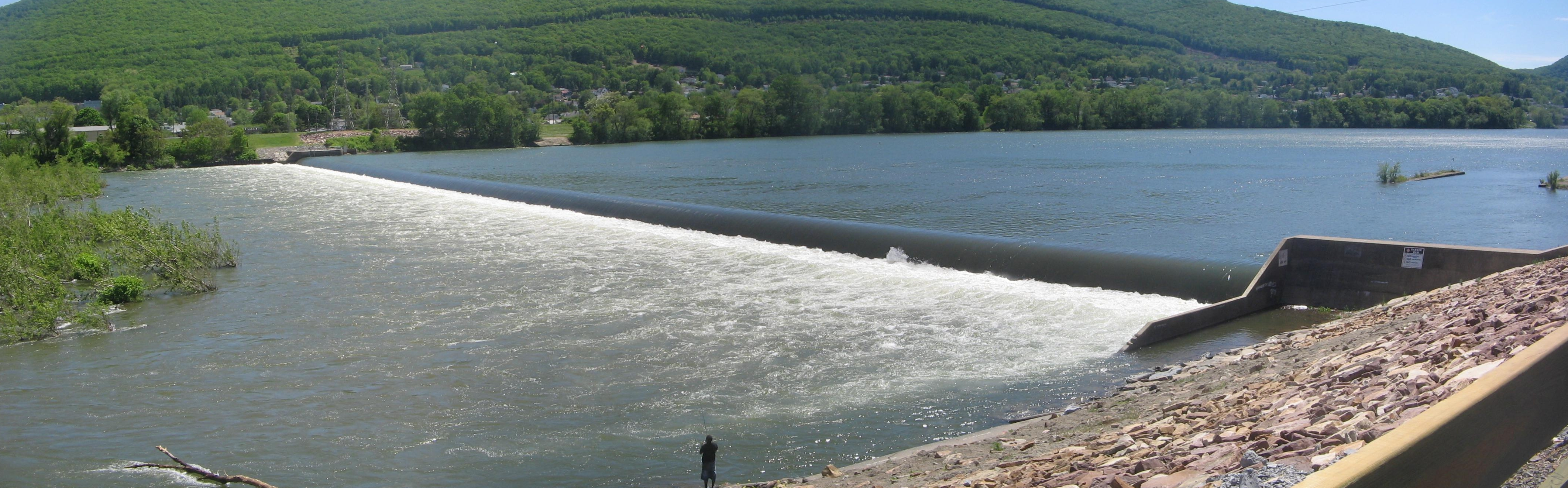 Hepburn Street Dam on the West Branch Susquehanna River, from the River Walk in the city of Williamsport, Lycoming County, Pennsylvania, USA.